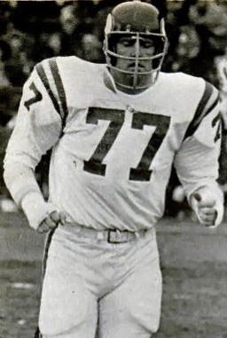 Former Minnesota Vikings defensive tackle Gary Larsen cropped from